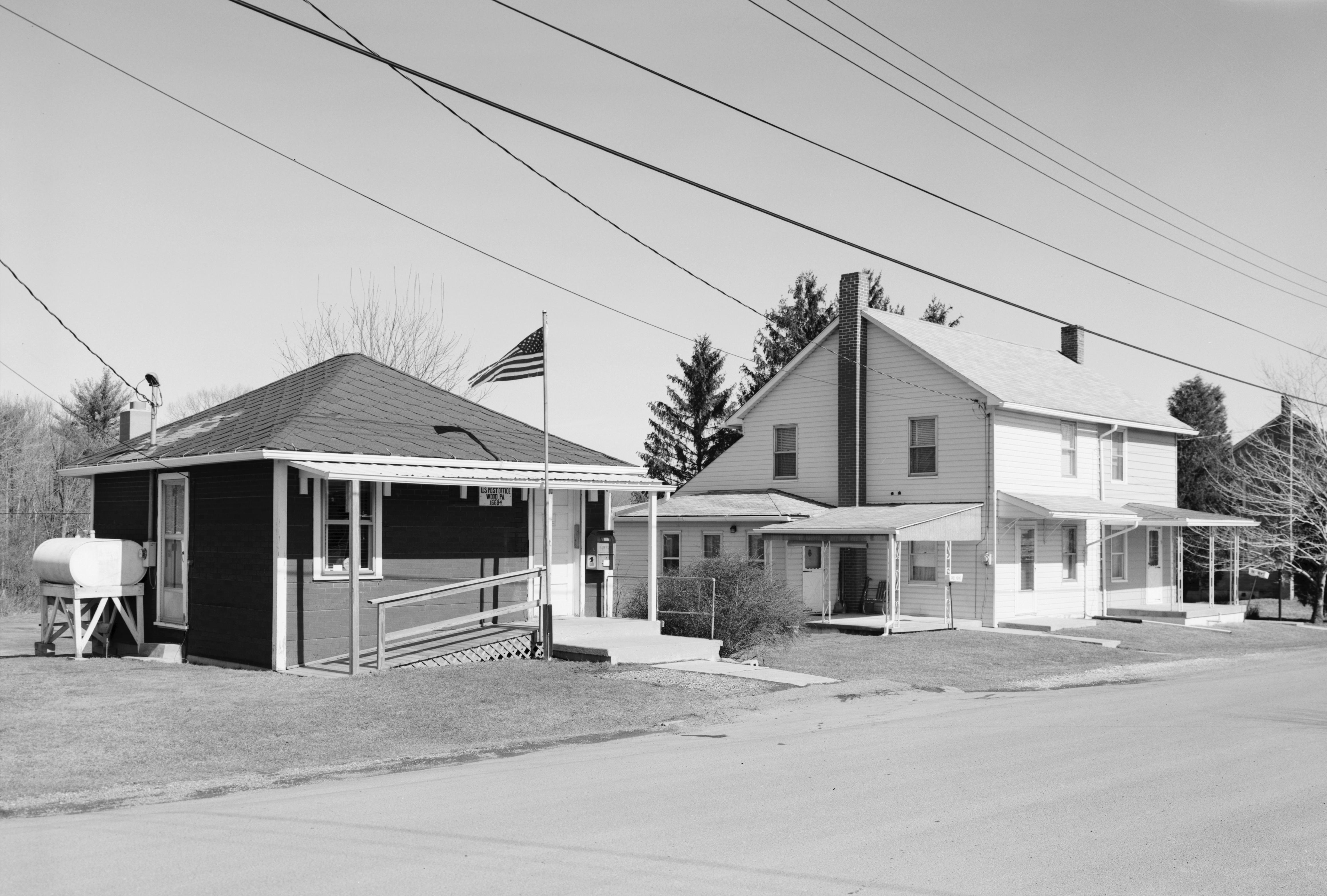 Post office in Woodvale, an unincorporated community in Wood Township, Huntingdon County, Pennsylvania, United States. Built in 1915 along Main Street, it is part of the Woodvale Historic District, a historic district that is listed on the National Register of Historic Places.